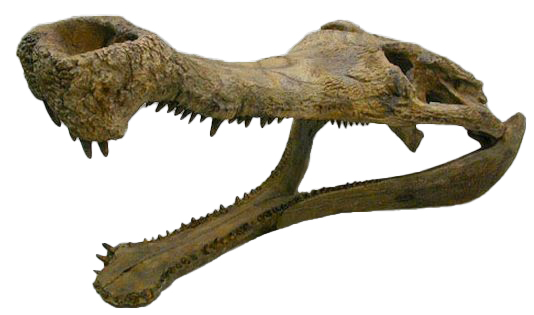 Skull of Sarcosuchus imperator, from the early Cretaceous of Africa. It could reach 11–12 m (or 37–40 ft). It was thought to be a relative of the crocodile.